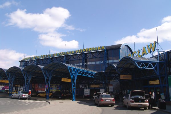 Airport terminal in Wrocław, Poland